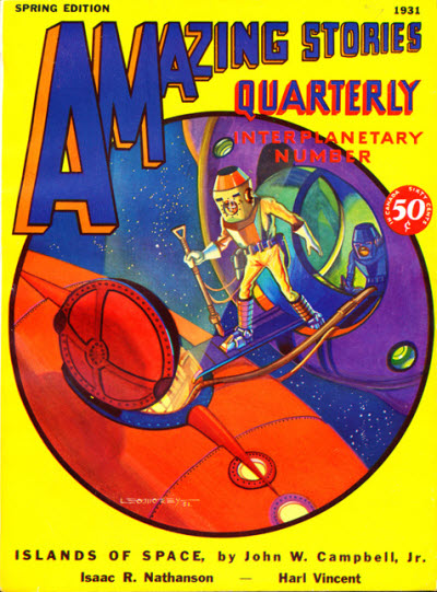 Cover, Amazing Stories Quarterly, spring 1931